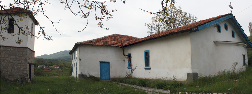 Ochusha All Saints village church